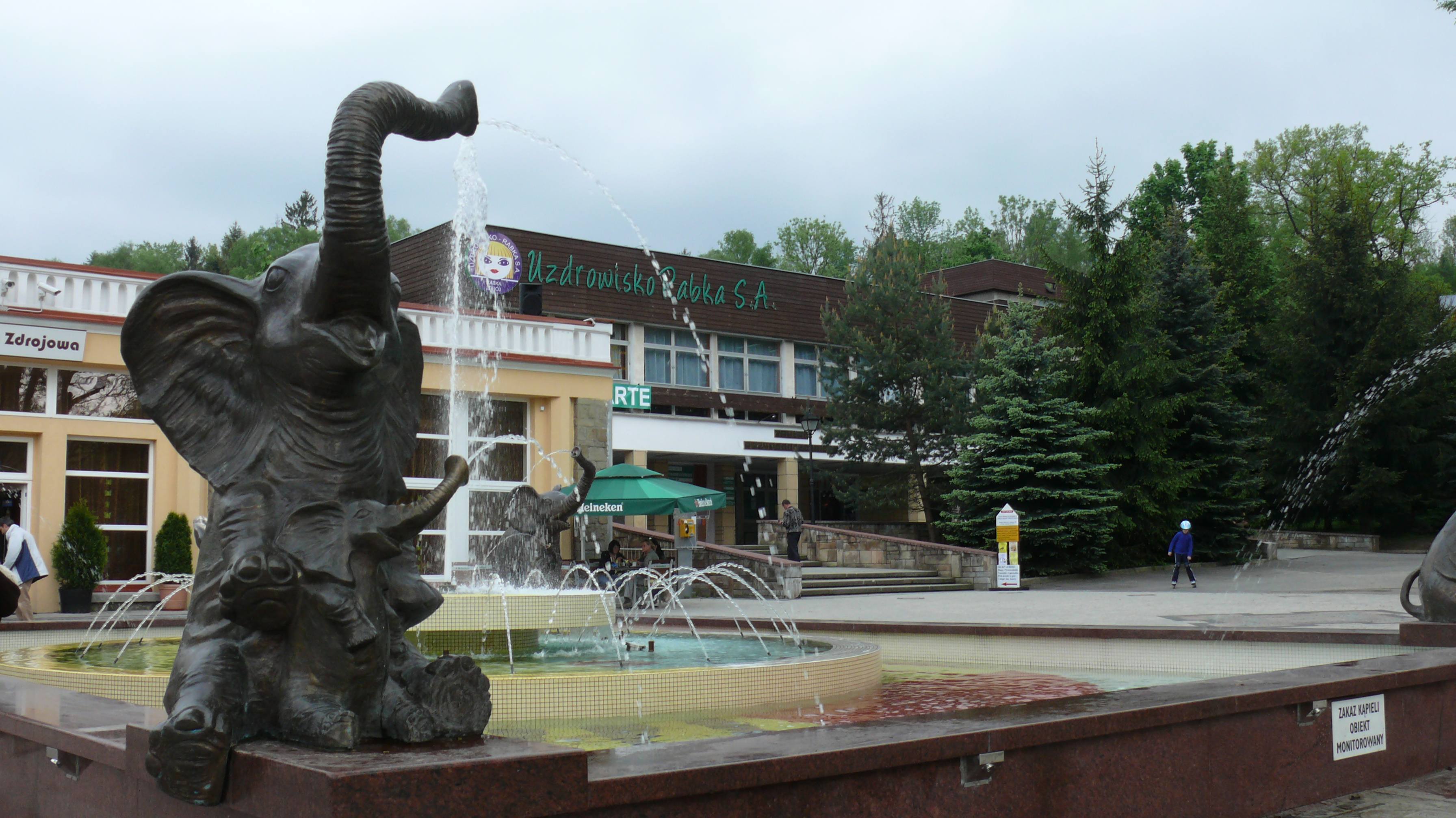 Fountain before Rabka Zdrój (Poland) resort managment